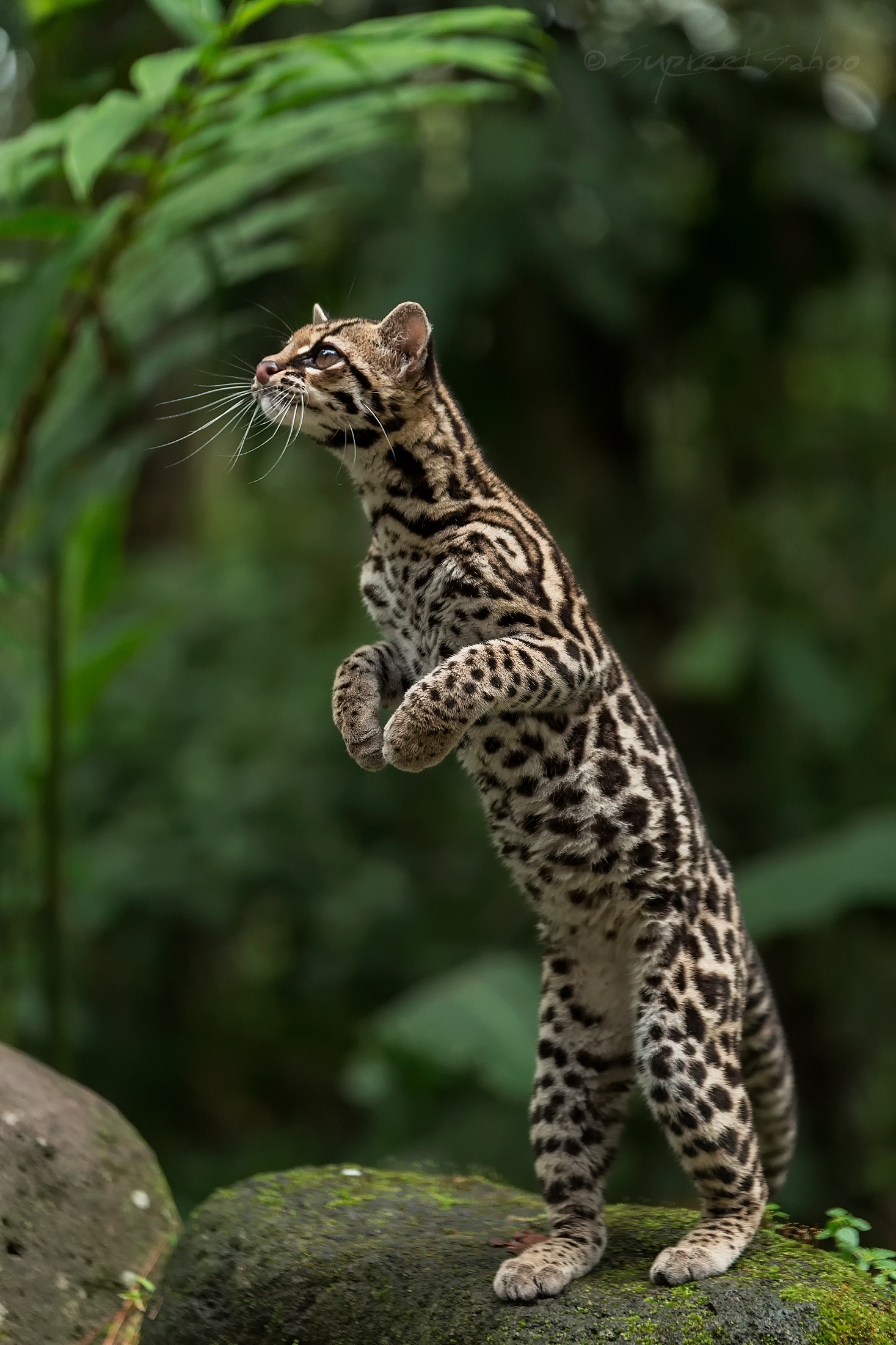 Image shot near one of the active volcanoes of Costa Rica. For more details visit